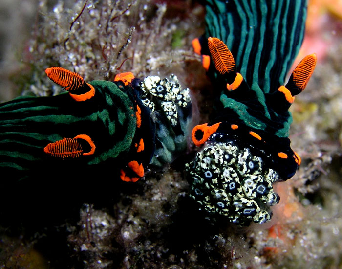 Nudibranch (Nembrotha kubaryana) eating clavelina tunicate colony.